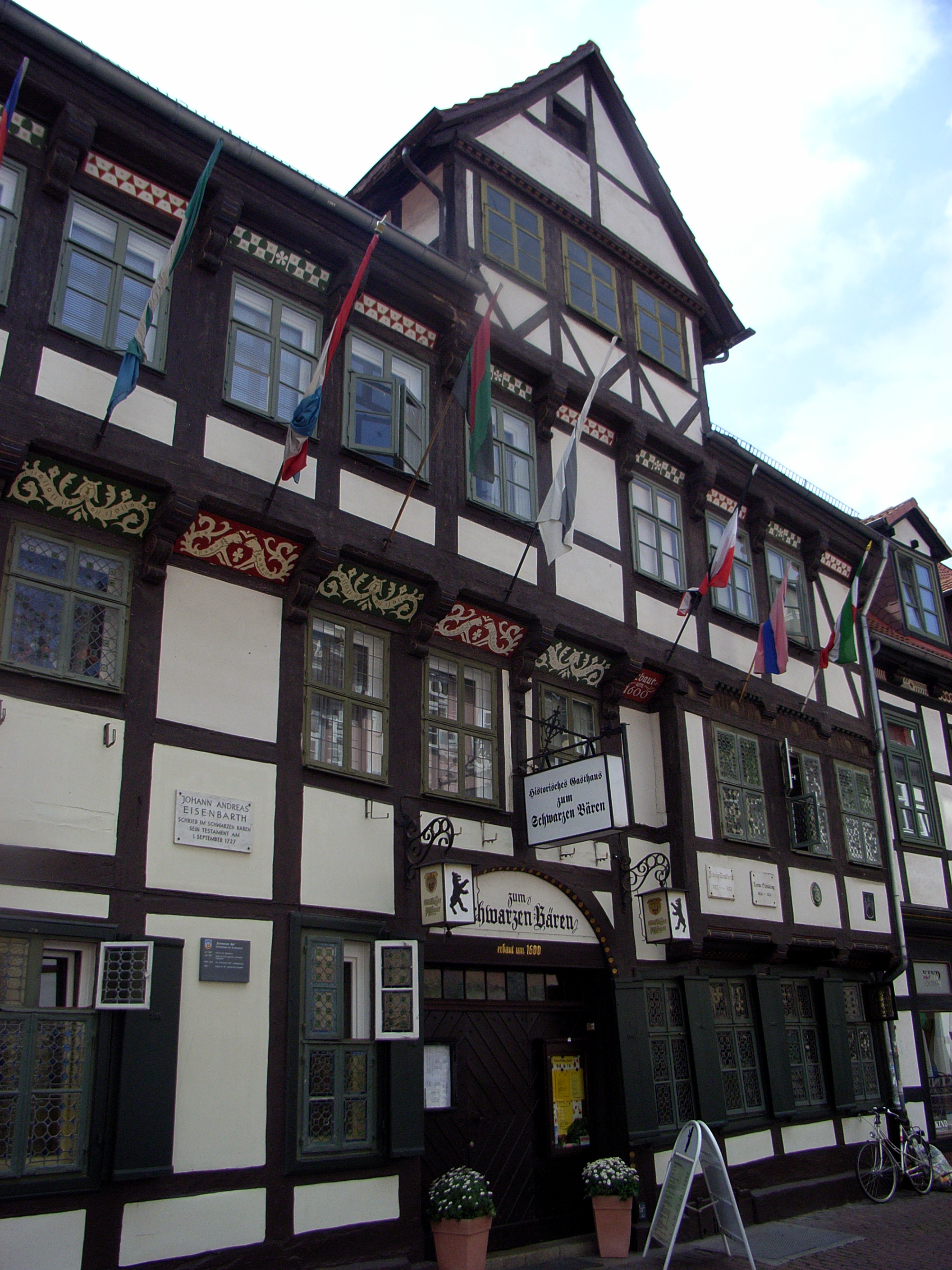 This image shows the Restaurant "Schwarzer Bär".